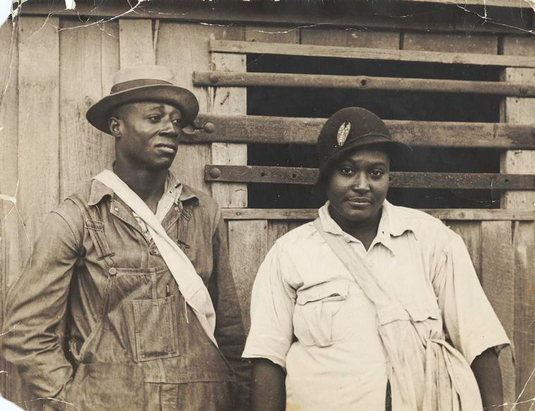 Digital ID: 1211910. Cotton pickers receiving sixty cents a day, Pulaski County, Arkansas, October 1935.. Shahn, Ben -- Photographer. October 1935 Notes: FSA Ark. 1/14 Loose/Oversized Shahn 36065 Source: Farm Security Administration Collection. / Arkansas. / Ben Shahn. (more info) Repository: The New York Public Library. Schomburg Center for Research in Black Culture. Photographs and Prints Division. See more information about this image and others at NYPL Digital Gallery. Persistent URL: Rights Info: No known copyright restrictions; may be subject to third party rights (for more information, click here)